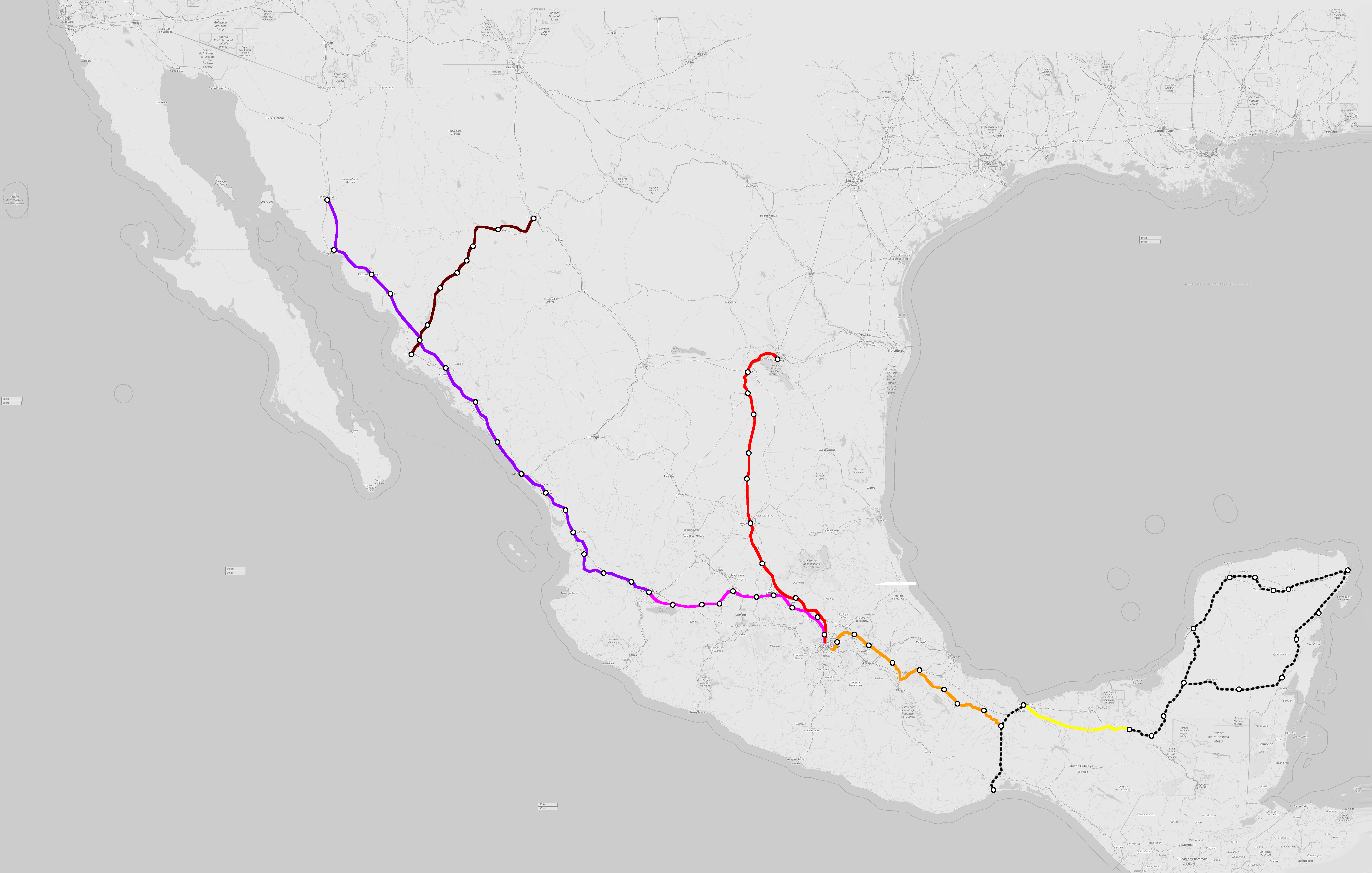 Passengers' railways: Mexico's national network proposal.